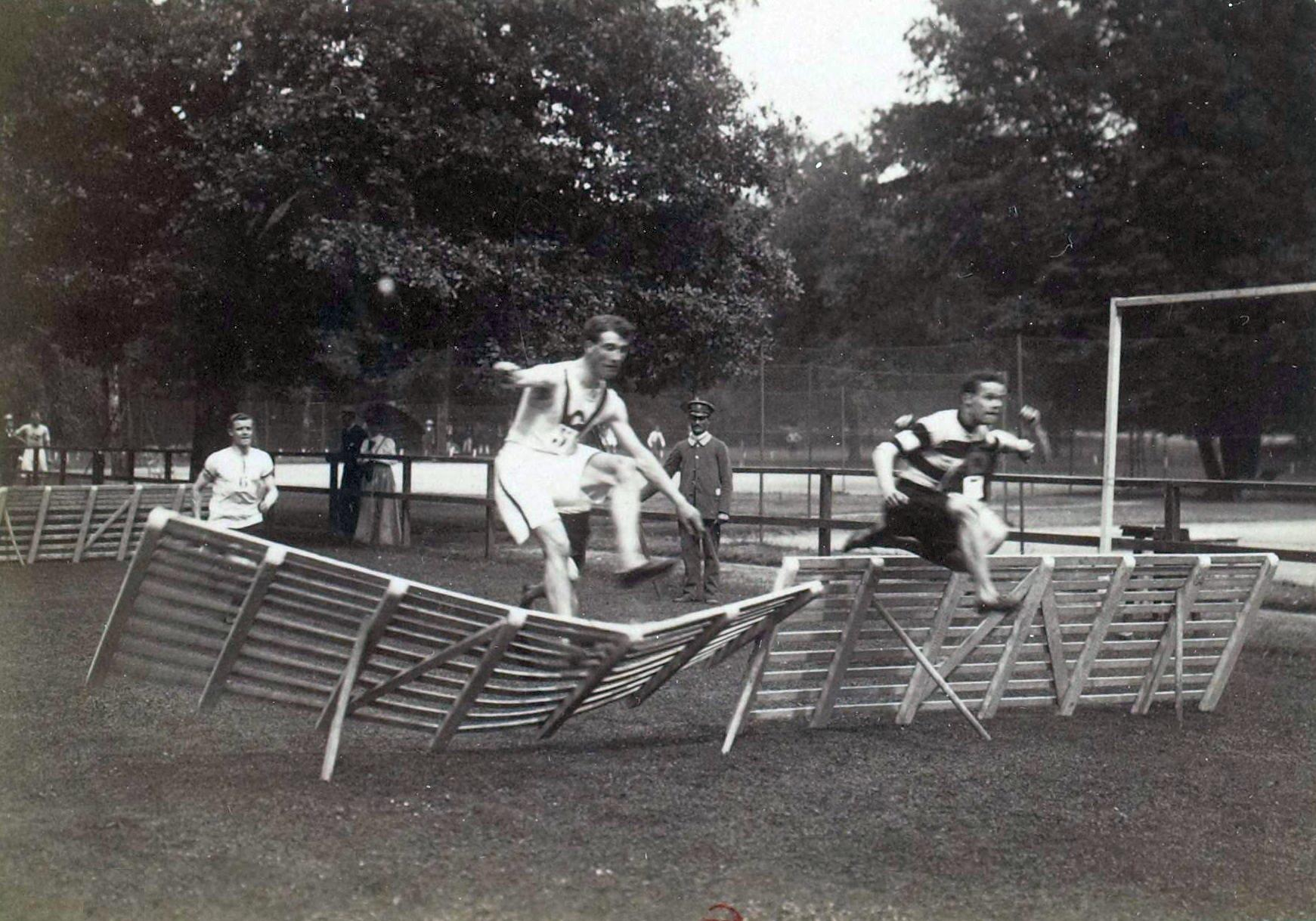 [Collection Jules Beau. Photographie sportive] : T. 13. Année 1900 / Jules Beau : F. 42. [Les sports à l'Exposition : championnats du monde d' athlétisme, amateurs]